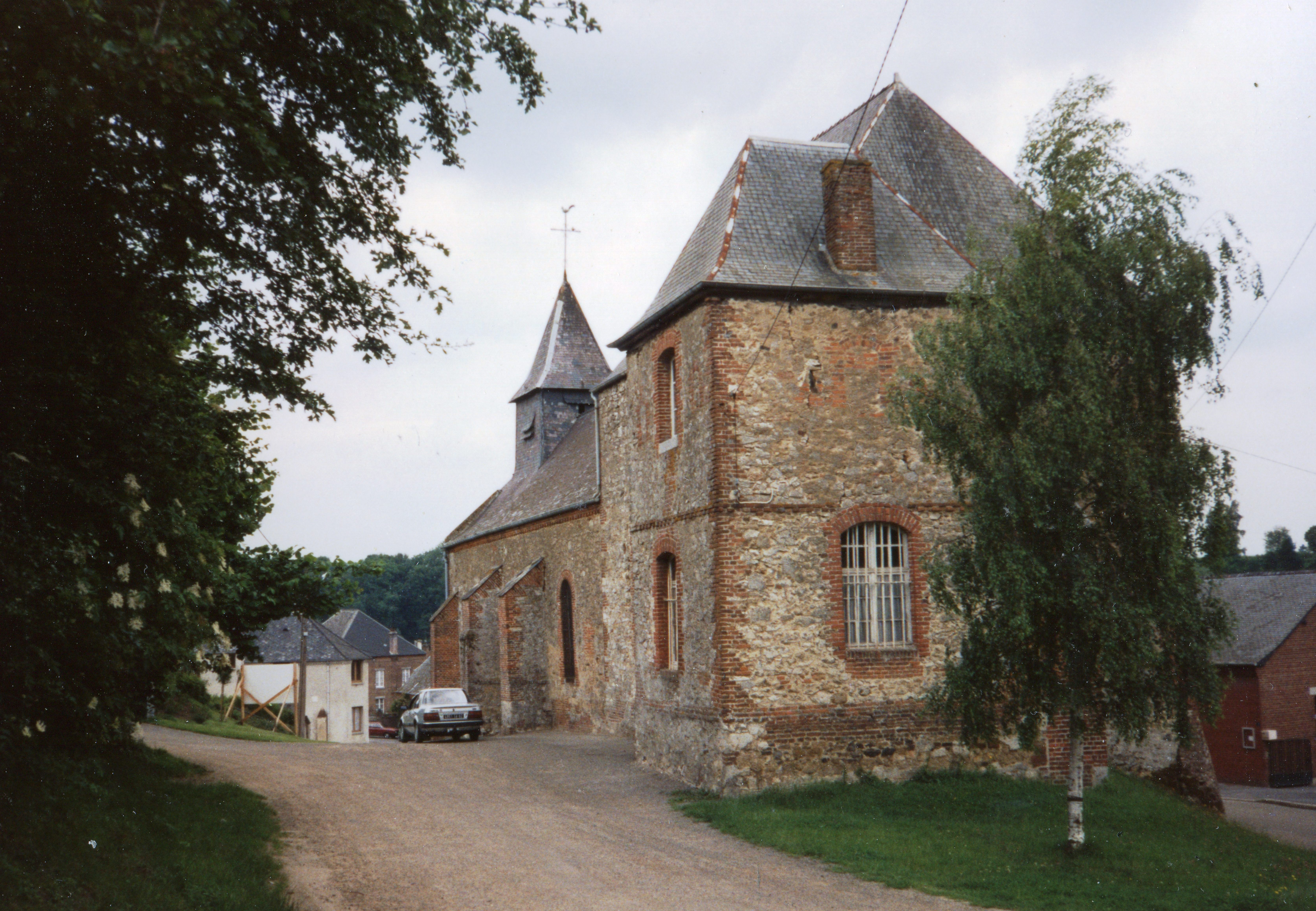 Église Saint-Maurice d'Ohis en 1991